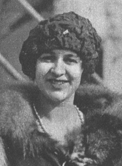 Lady Decies, formerly Miss Vivien Gould, daughter of Mr. and Mrs. George J. Gould, arriving on the Aquitania for her first visit to her native land in six years.